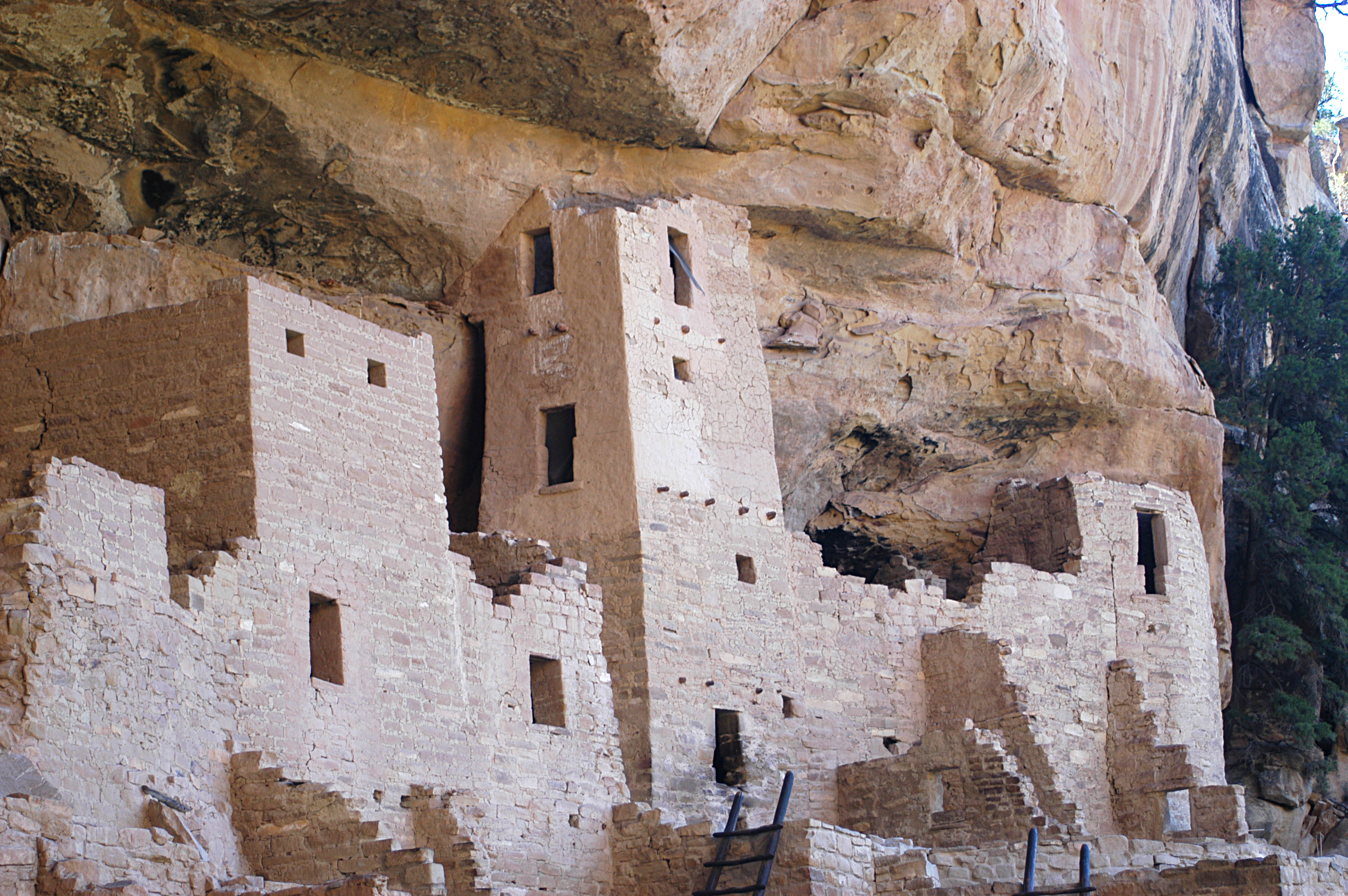 Cliff Palace